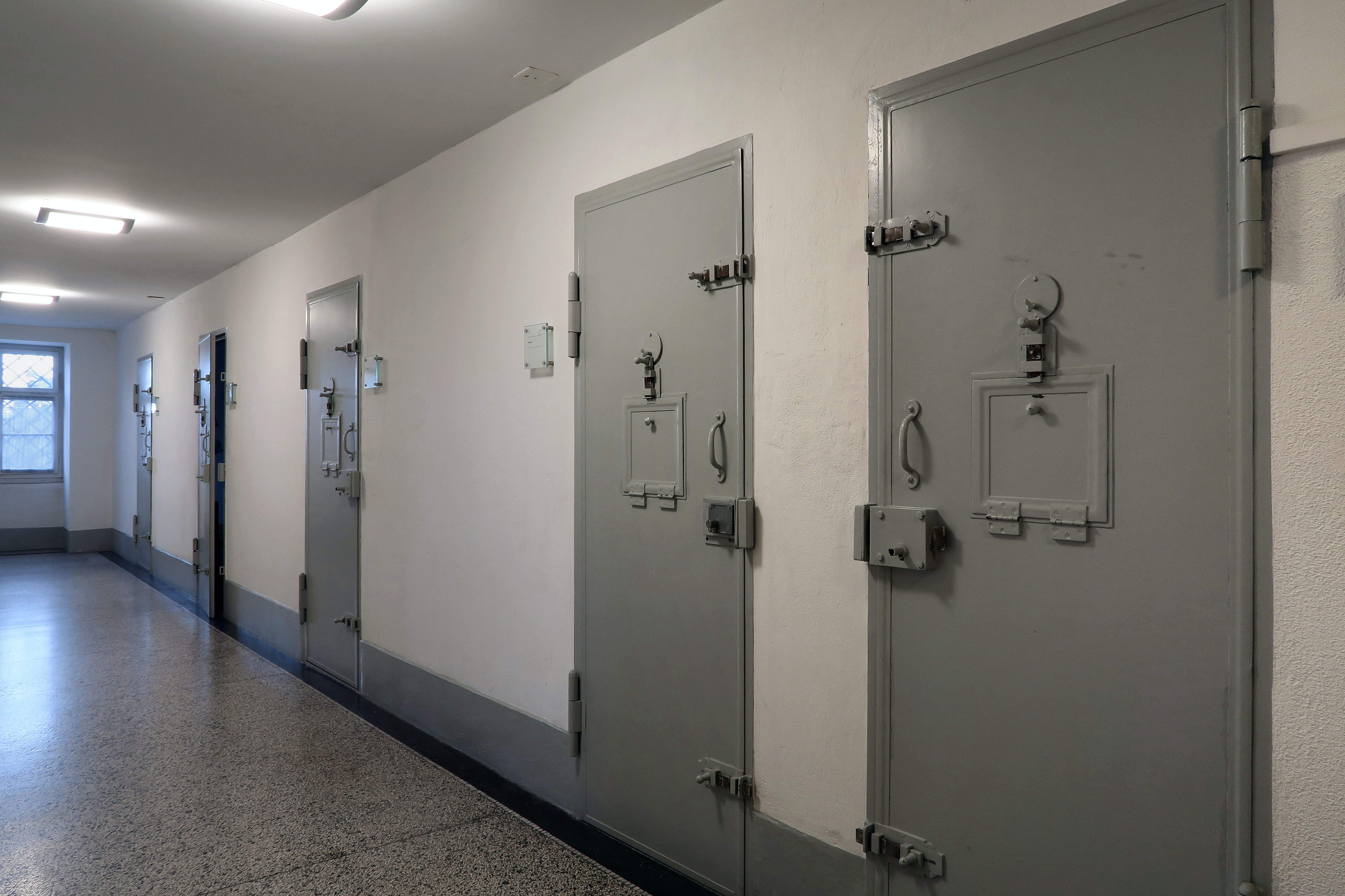 In the town hall on the second floor, there are these prison cells. They were in use until the end of the nineties. When the new police station in Buriet was put into operation, they were changed to archive rooms and a break room. Up to that point Rheineck had its own police station, but that was in another building. That the municipal employees have their break in a former prison cell is kind of funny. Switzerland, Feb 12, 2016.